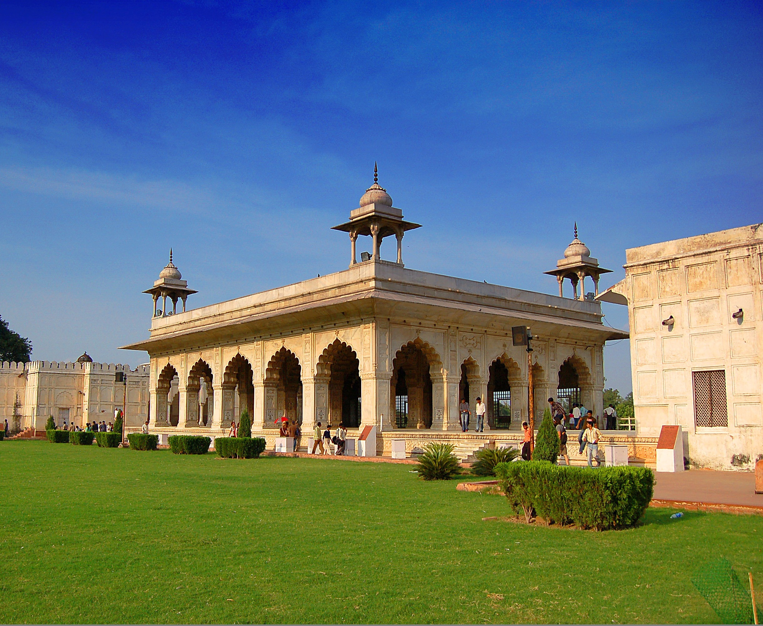 Red Fort